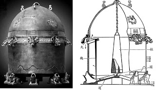 Feng Rui's reprodution of Heng's sismoscope